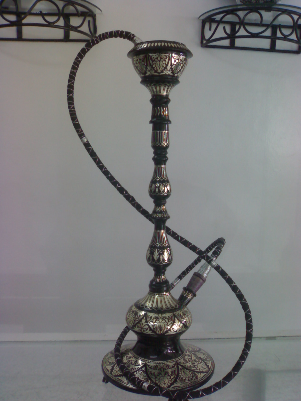 Bidriware article.